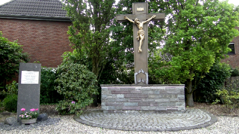 Memorial cross in Winkeln, Mönchengladbach, Germany.